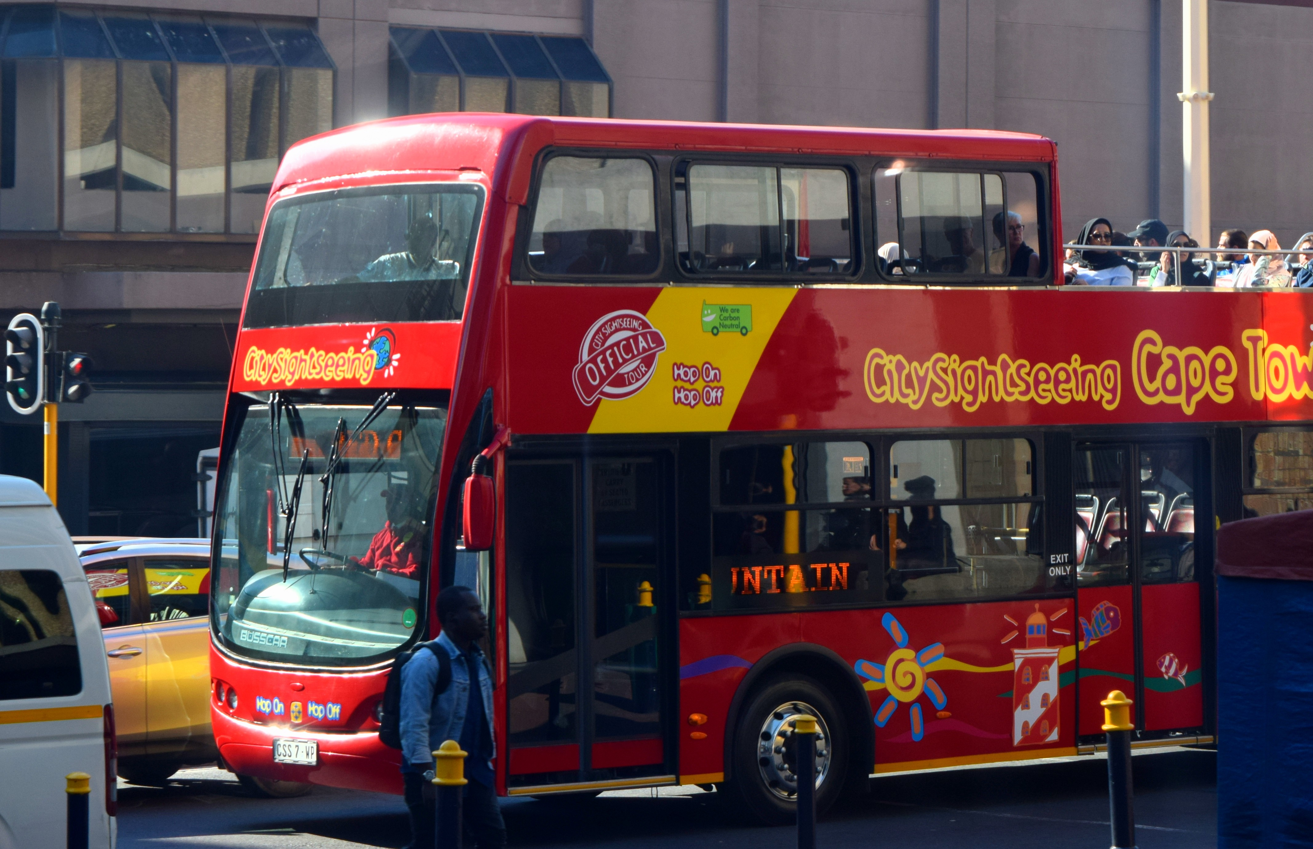 City Sight Seeing Cape Town City